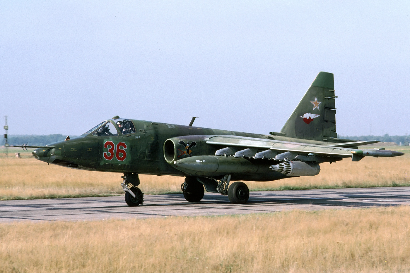 Taxiing to the runway at Brandis on 27 August 1991. Photo taken from the fence. The Frogfoots of the 357th ShAP finally left Germany in April 1992. Non of the 30+ Su-25's at Brandis had the same camouflage. This one is sporting the rook-emblem. Grach (rook) is the Russian nickname of the Su-25.